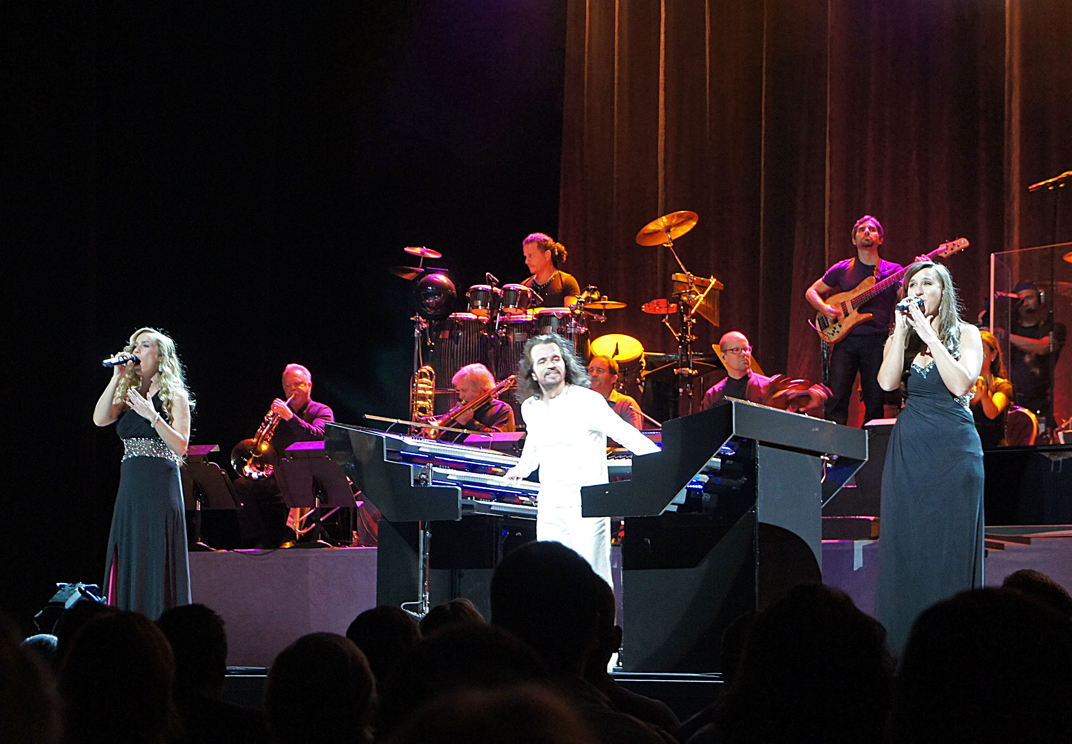 Vocalists Lisa Lavie (left) and Lauren Jelencovich (right) perform in concert with Yanni. In the shadows (left to right): James Mattos (with French horn), Dana Teboe (trombone), Yoel del Sol (drums), Yanni (highlighted in foreground), Jason Carder, Benedikt Brydern (with violin), Gabriel Vivas (with bass guitar), Mary Simpson (partially obscured), unidentified videographer.